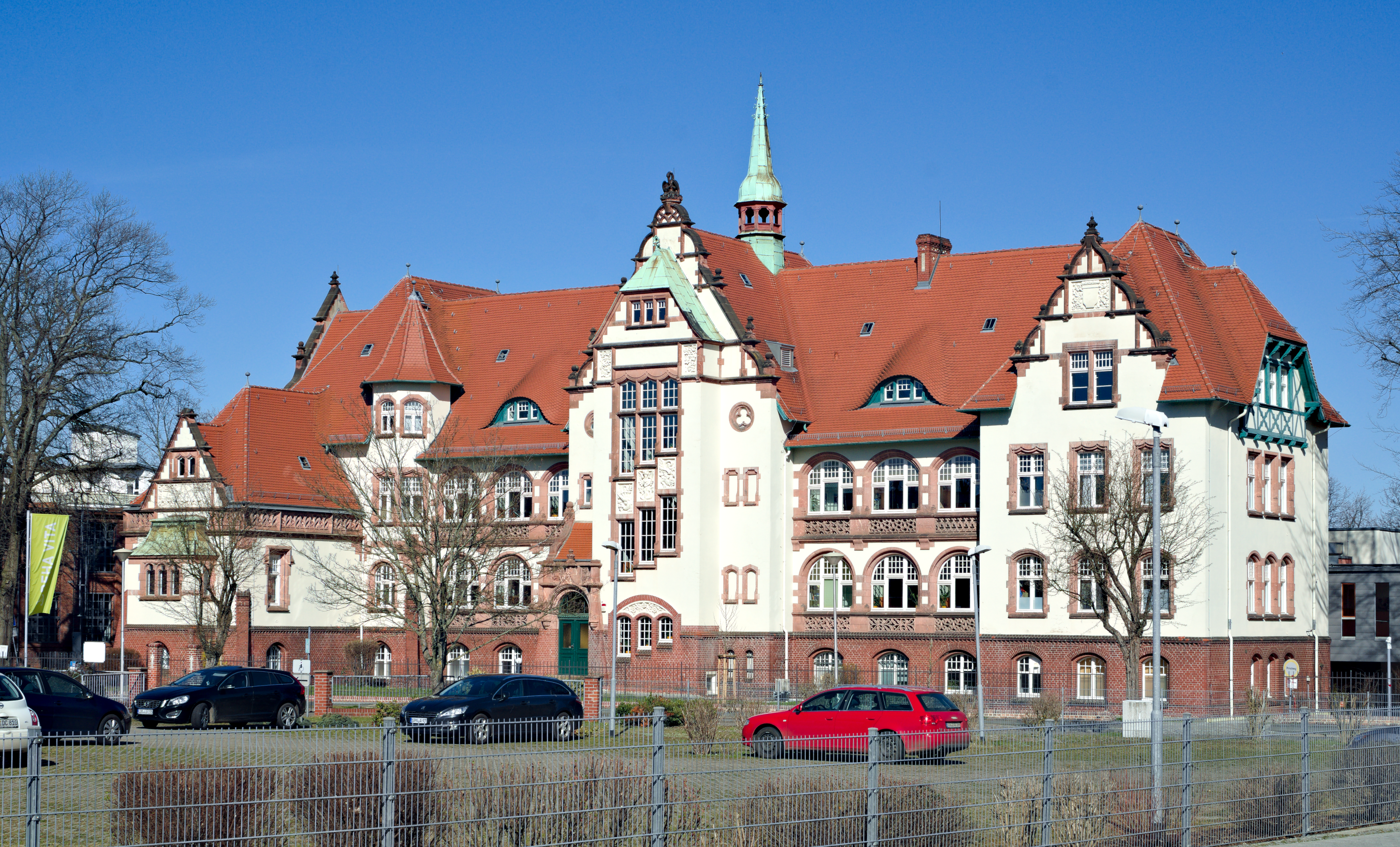 Cultural heritage monument Auguste-Stift, Feigestraße 1 in Cottbus-Mitte.